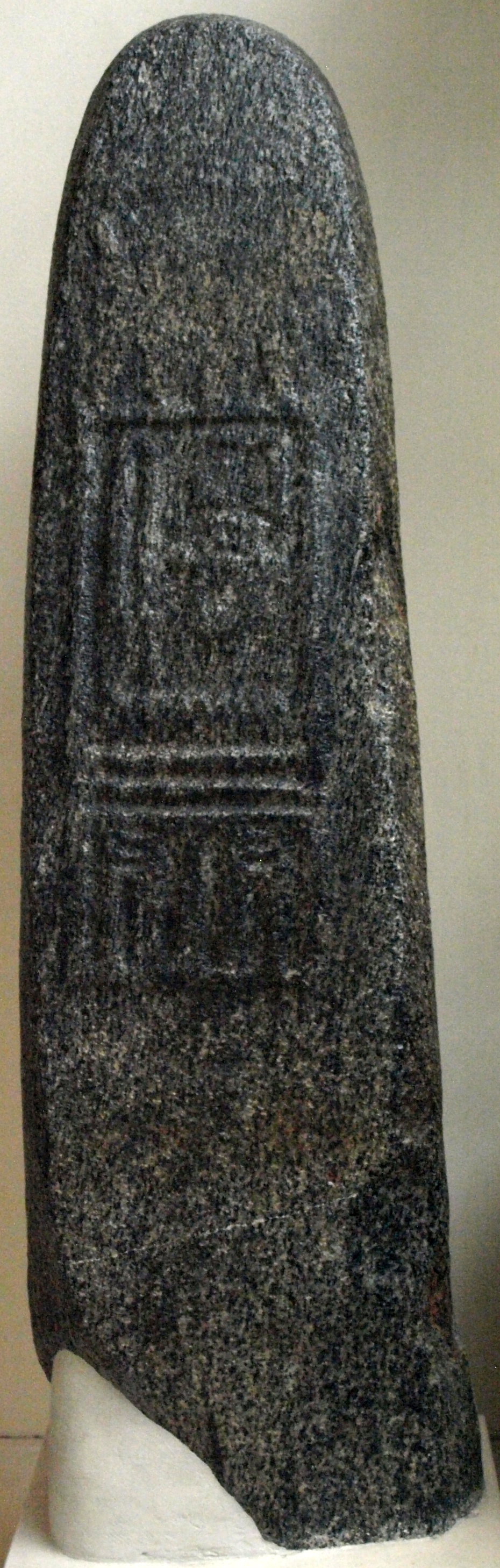 Tomb stela of the pharoah Peribsen, originally from his tomb at Abydos. Above the royal name was formerly the a jackal symbol for the god Seth in the place where more typically a Horus falcon would appear; this symbol was erased in ancient times. EA 35597.